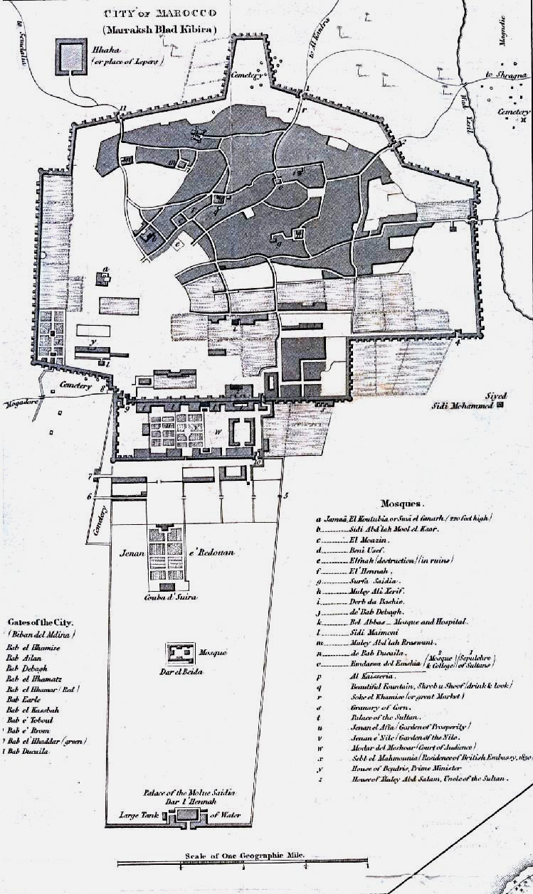 Map of Marrakesh, from 1830. Derivative rom "Marocco from Observations In 1830" with inset map of "City of Marocco (Marraksh Blad Kibira)" from the Journal of the Royal Geographical Society, Volume 1, 1832 to accompany "Geographical Notice of the Empire of Marocco. By Lieutenant Washington, R.N."